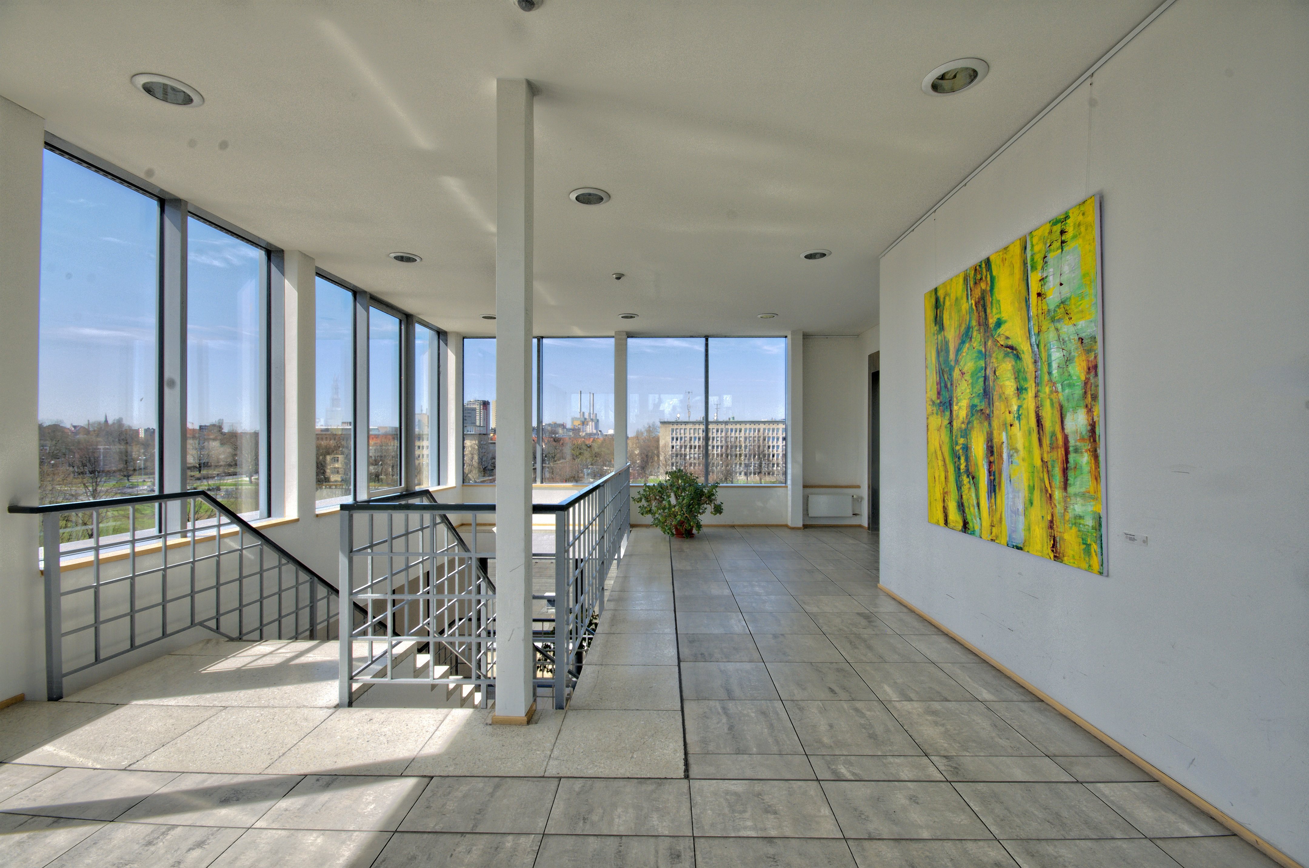 Wikipedia im Landtag – Niedersachsen 17. bis 18. April 2013 in Hannover Fragen zur Nachnutzung Wenn Sie Fragen zur Nachnutzung dieses Bildes haben, können Sie sich jederzeit gern an wenden Personality rights warning This work depicts one or more identifiable persons. The use of depictions of living or deceased persons may be restricted by laws regarding personality rights. The extent of these restrictions depends on jurisdiction. Personality rights restrictions apply independently of copyright. Before using this content, please ensure that the intended use does not infringe any personality rights under applicable laws. You are solely responsible for ensuring that you do not infringe someone else's personality rights. See our general disclaimer.